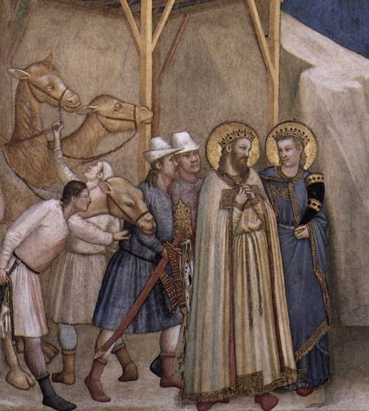 The Adoration of the Magi. Fresco in Lower Church, San Francesco, Assisi